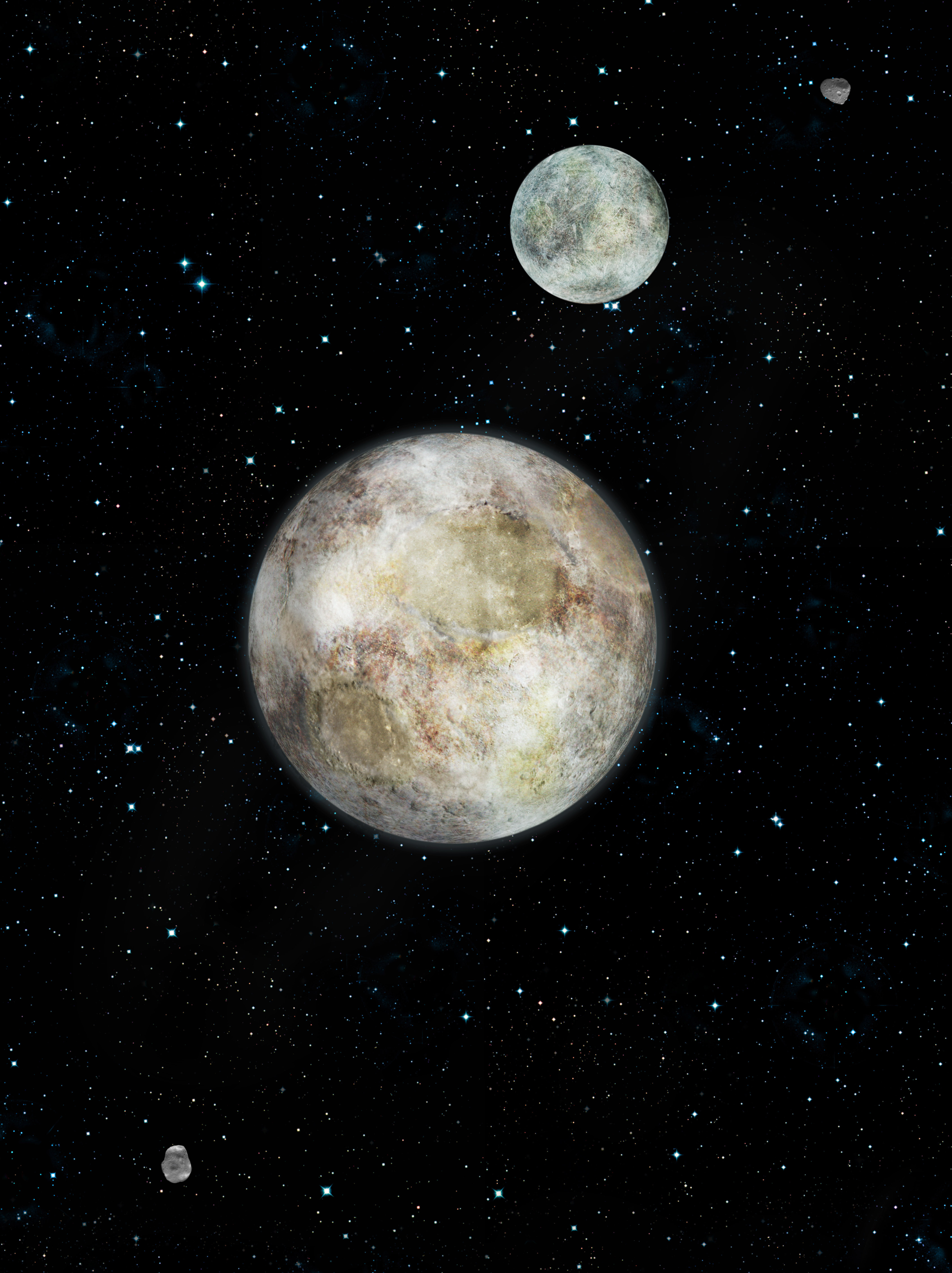 Artists conception of the Pluto system - revised